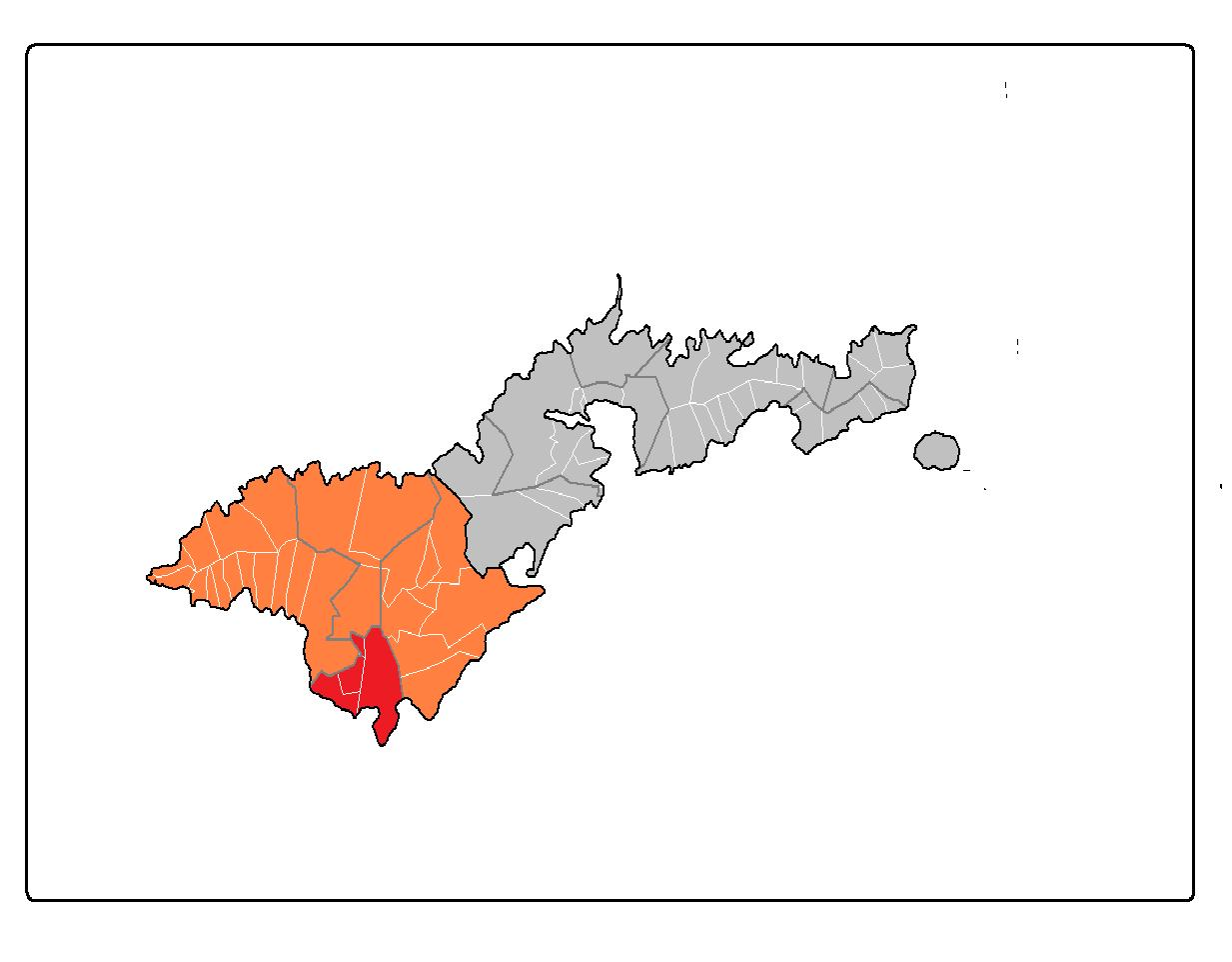 Locator map of American Samoa: Tualatai county